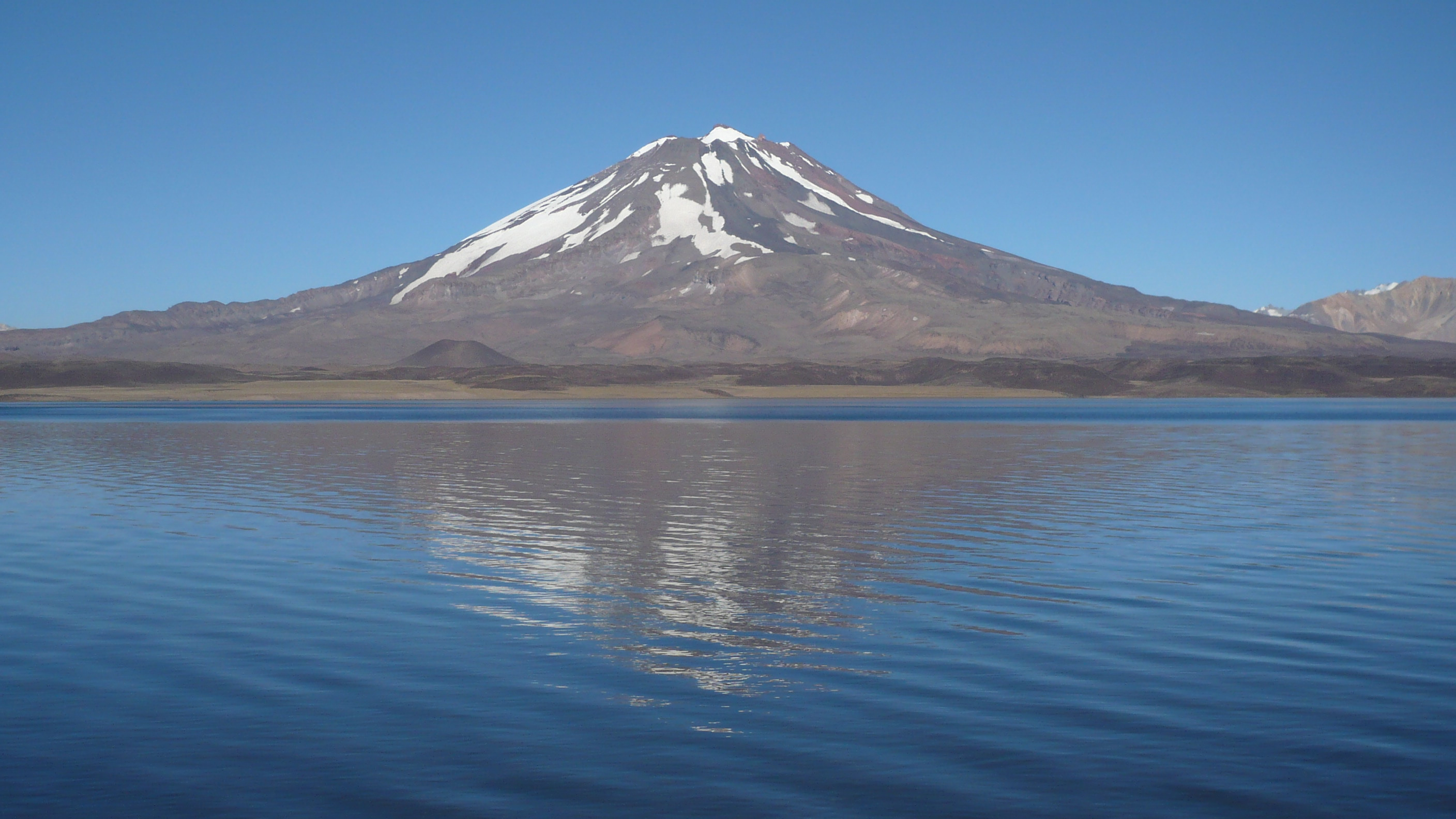 Diamond Lake and Maipo volcano